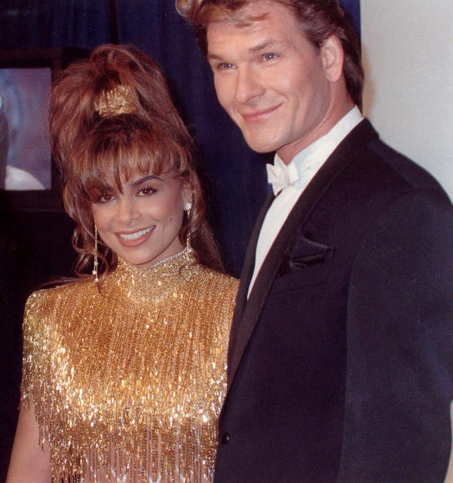 Paula Abdul & Patrick Swayze. Grammy Awards - back stage during telecast - February, 1990 - Permission granted to copy, publish or post but please credit "photo by Alan Light" if you canPaula Abdul & Patrick Swayze